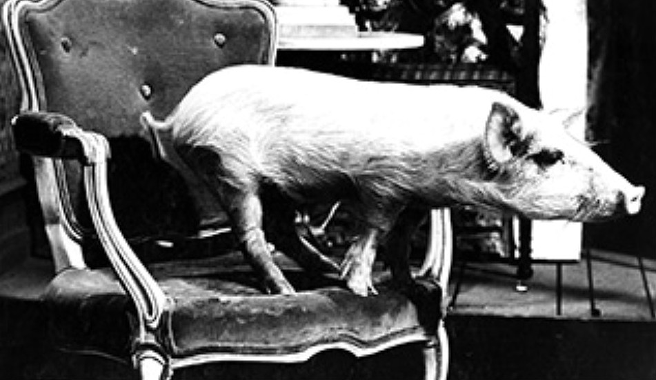 Photo of Arnold Ziffel from the television program Green Acres. The item has no copyright markings on it as can be seen in the links above.